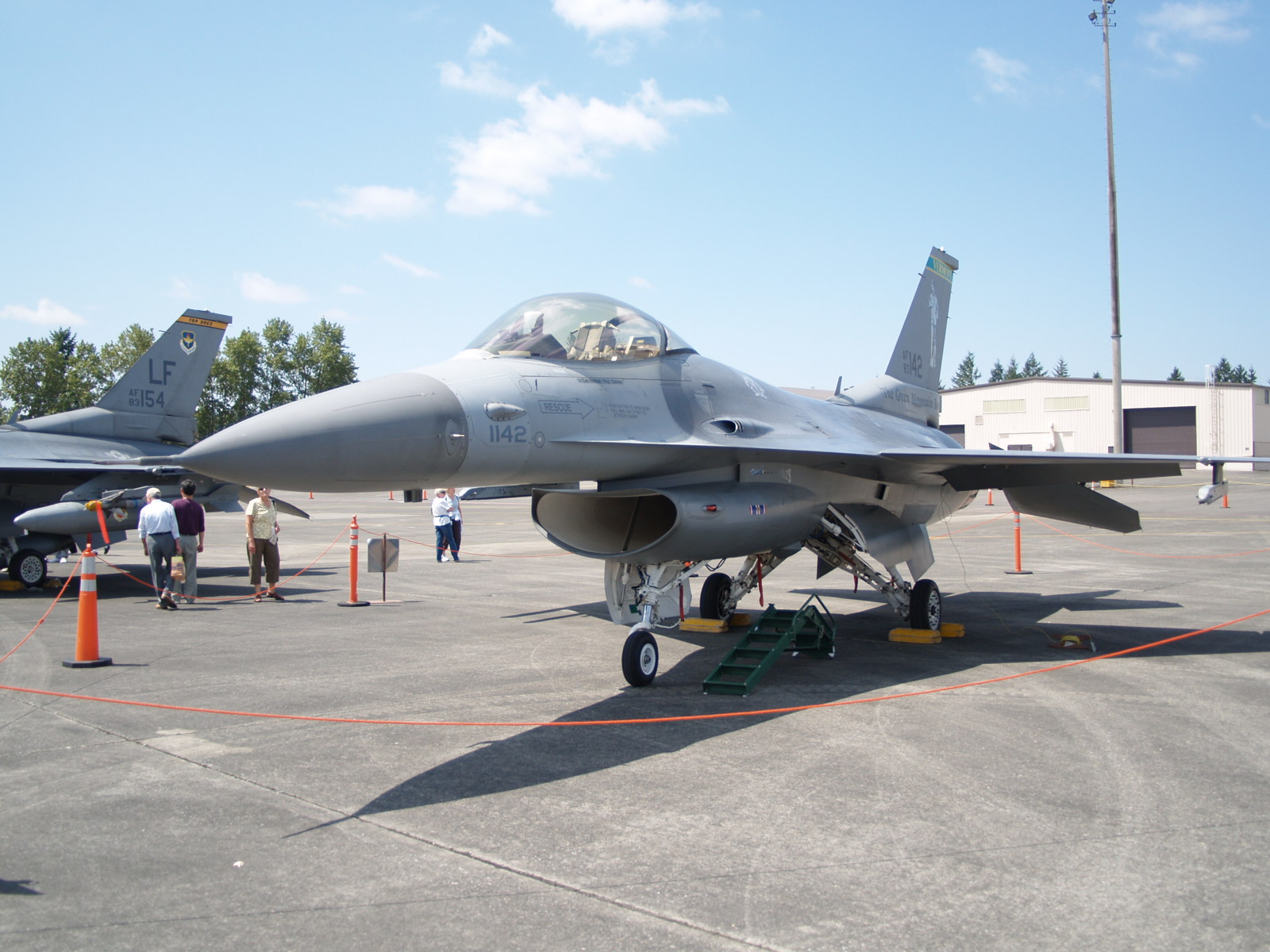 F-16 Parked at the McChord Air Expo 2008, June 2008 McChord AFB, Washington